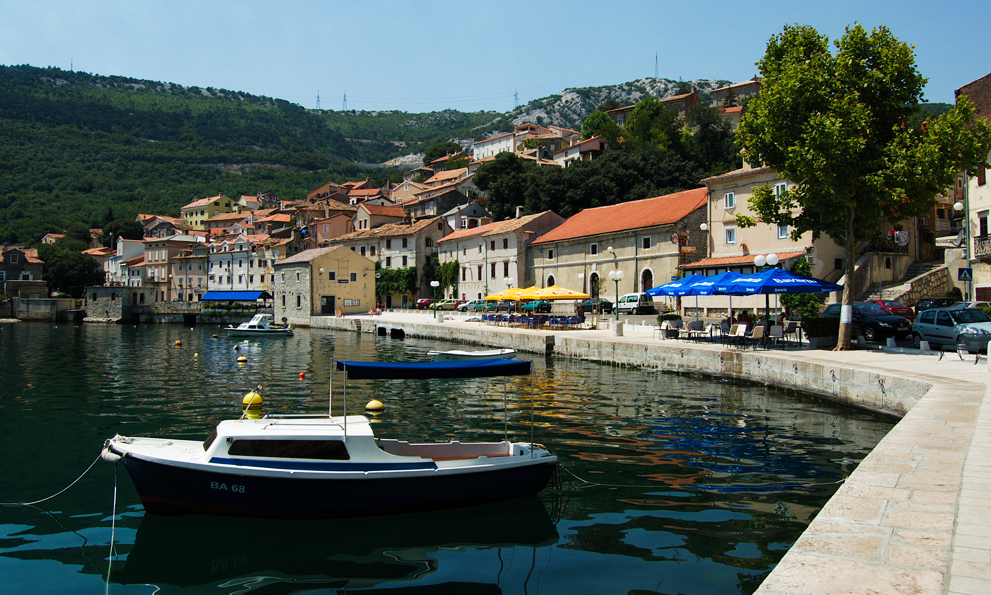 Bakar, Croatia.